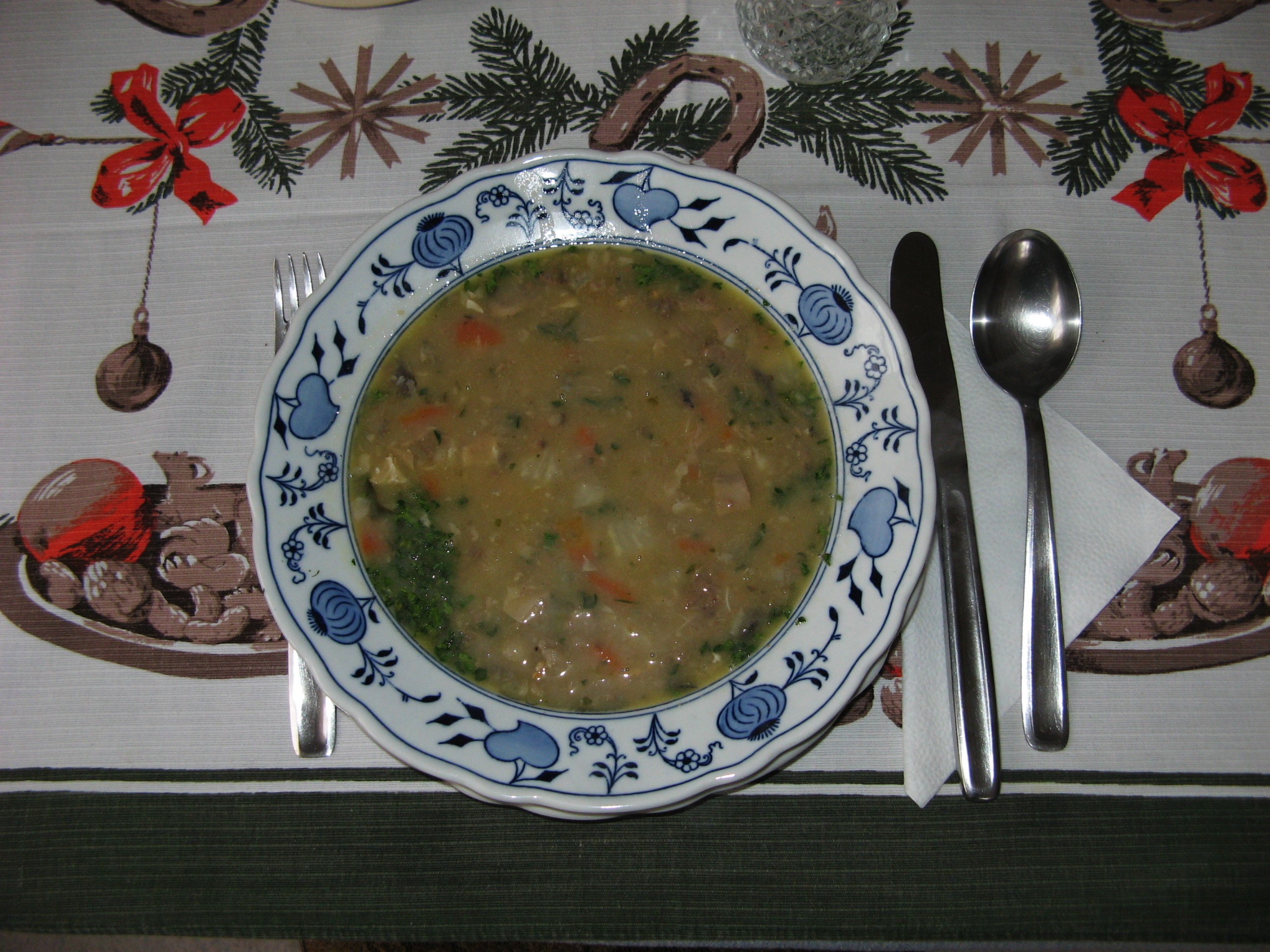 Czech traditional Christmas fish soup